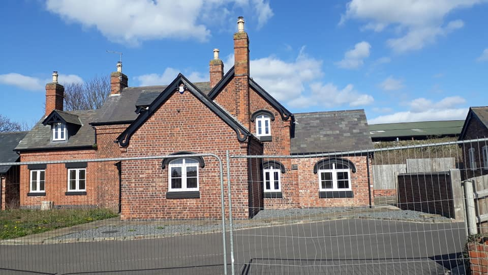 My own